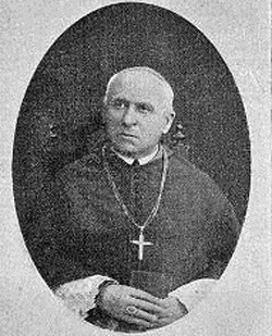 Szymon Marcin Kozłowski - Catholic bishop of Mohilev. XIX centure.